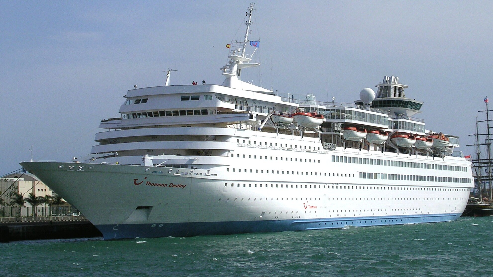 M/S Thomson Destiny (ex-Song of America, Sunbird) at Gran Canaria.